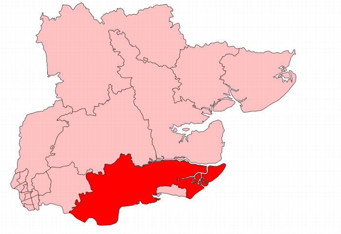 A map of Essex South East constituency within Essex, as it existed from 1918 to 1945.